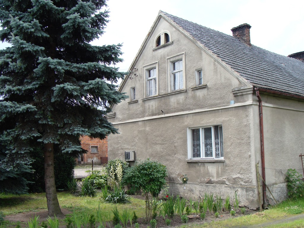 Wyrzeka, family house of priest Piotr Wawrzyniak.